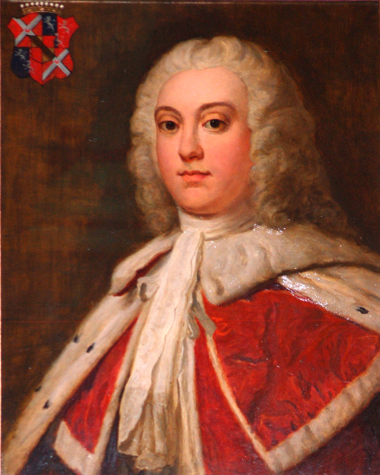 Portrait of Herbert Windsor, 2nd Viscount Windsor, who married Alice Clavering, daughter and heiress of Sir John Clavering, 3rd Baronet. Showing arms of Windsor quartering Herbert, with inescutcheon of Clavering (Quarterly or and gules, overall a bend sable)